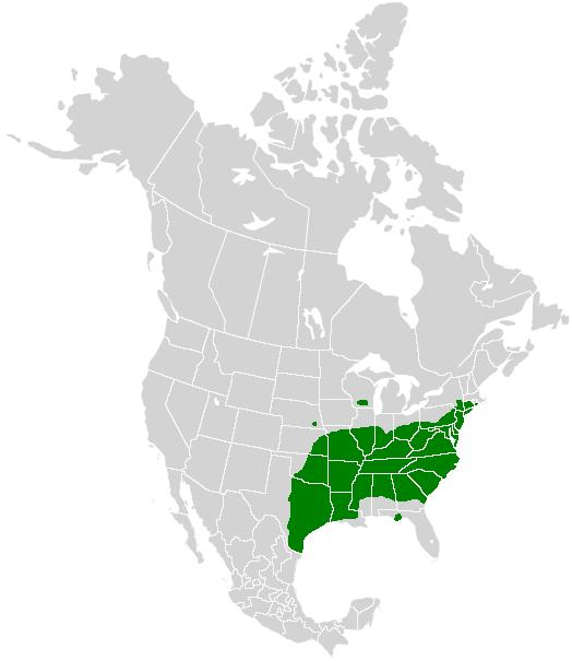 A range map showing the distribution of the Falcate Orangetip (Anthocharis midea).